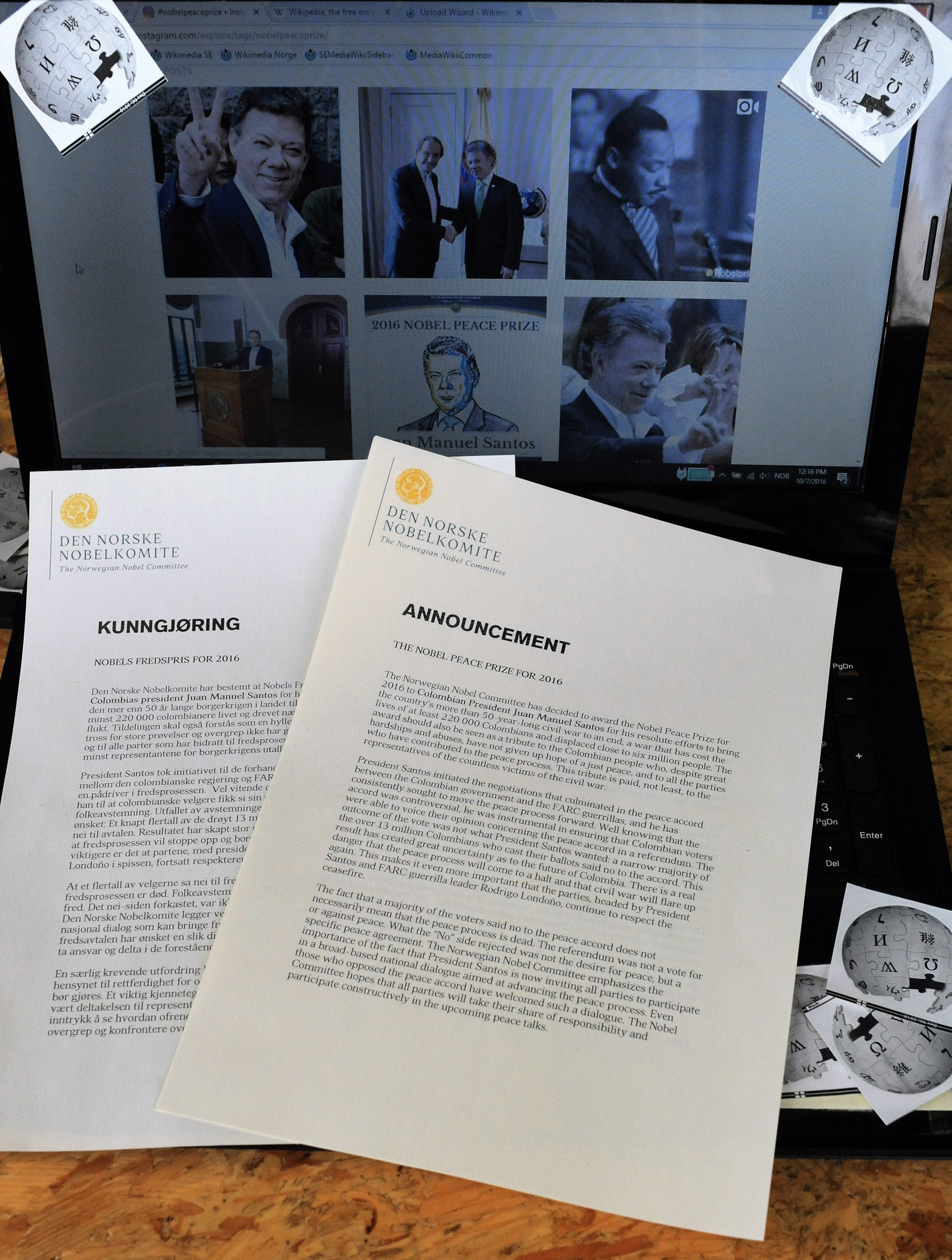 The announcement document for the Nobel Peace Prize 2016